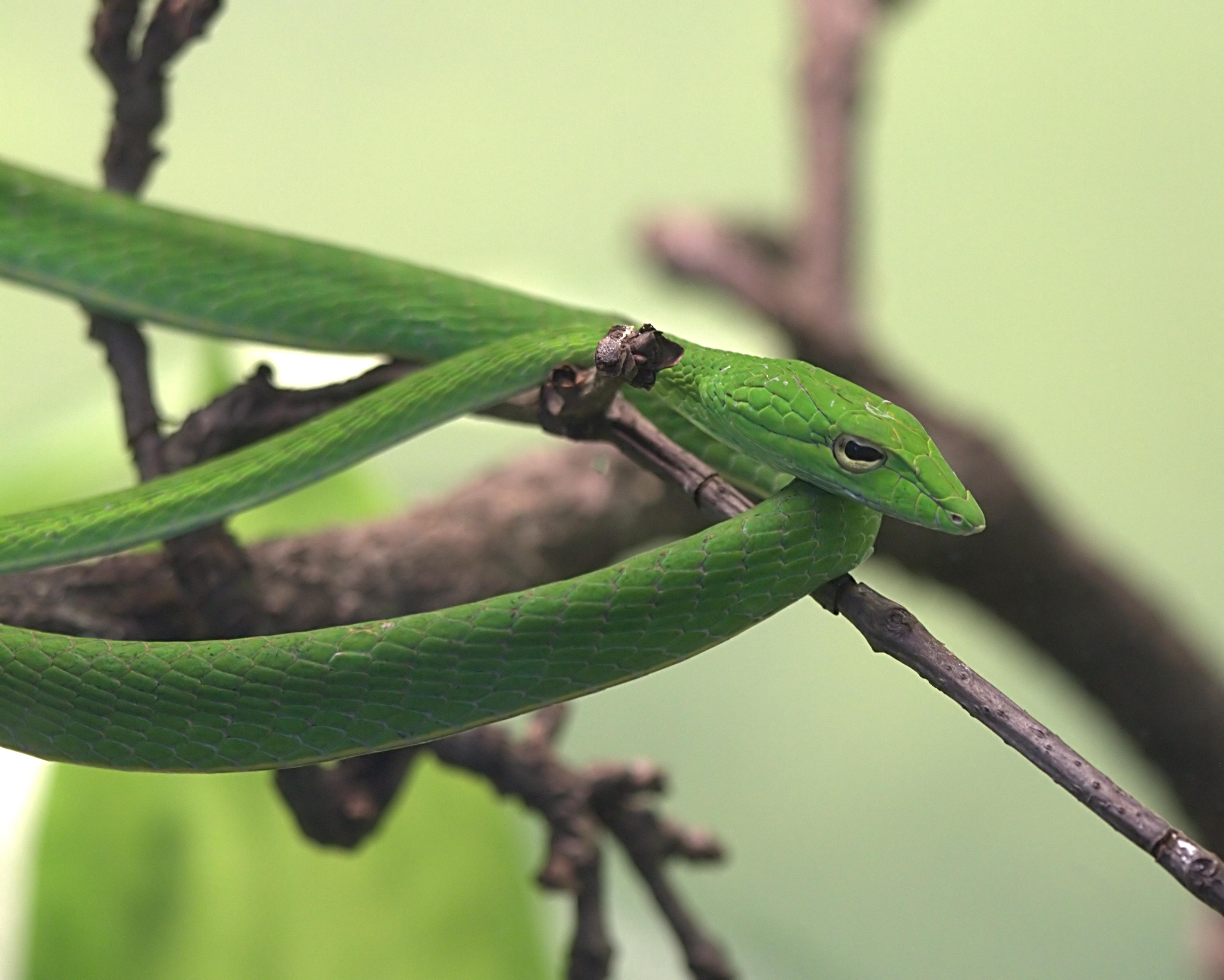 Ahaetulla prasina - taken at the Cincinnati Zoo.